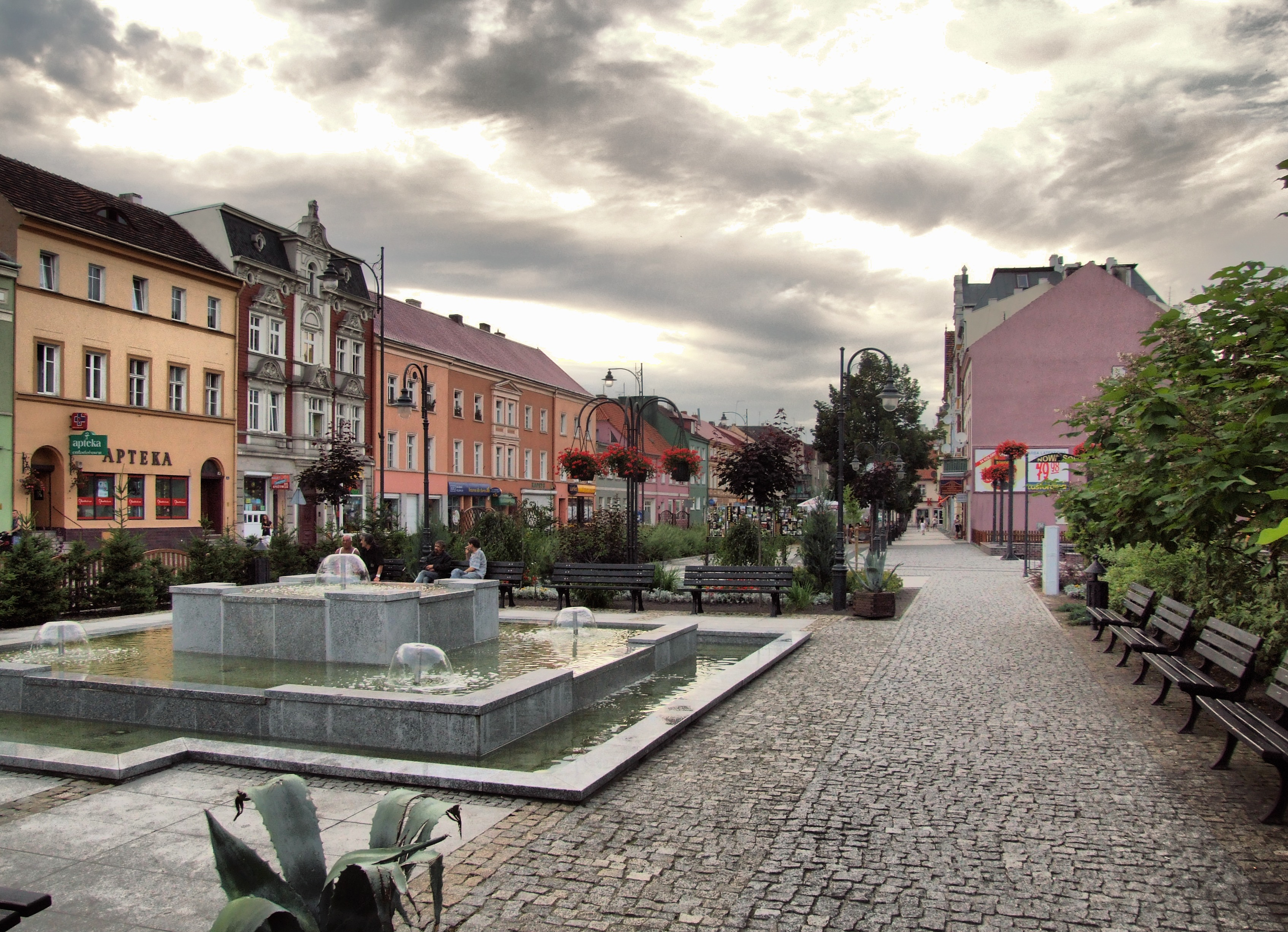 Nowa Sól in Poland. The city centre